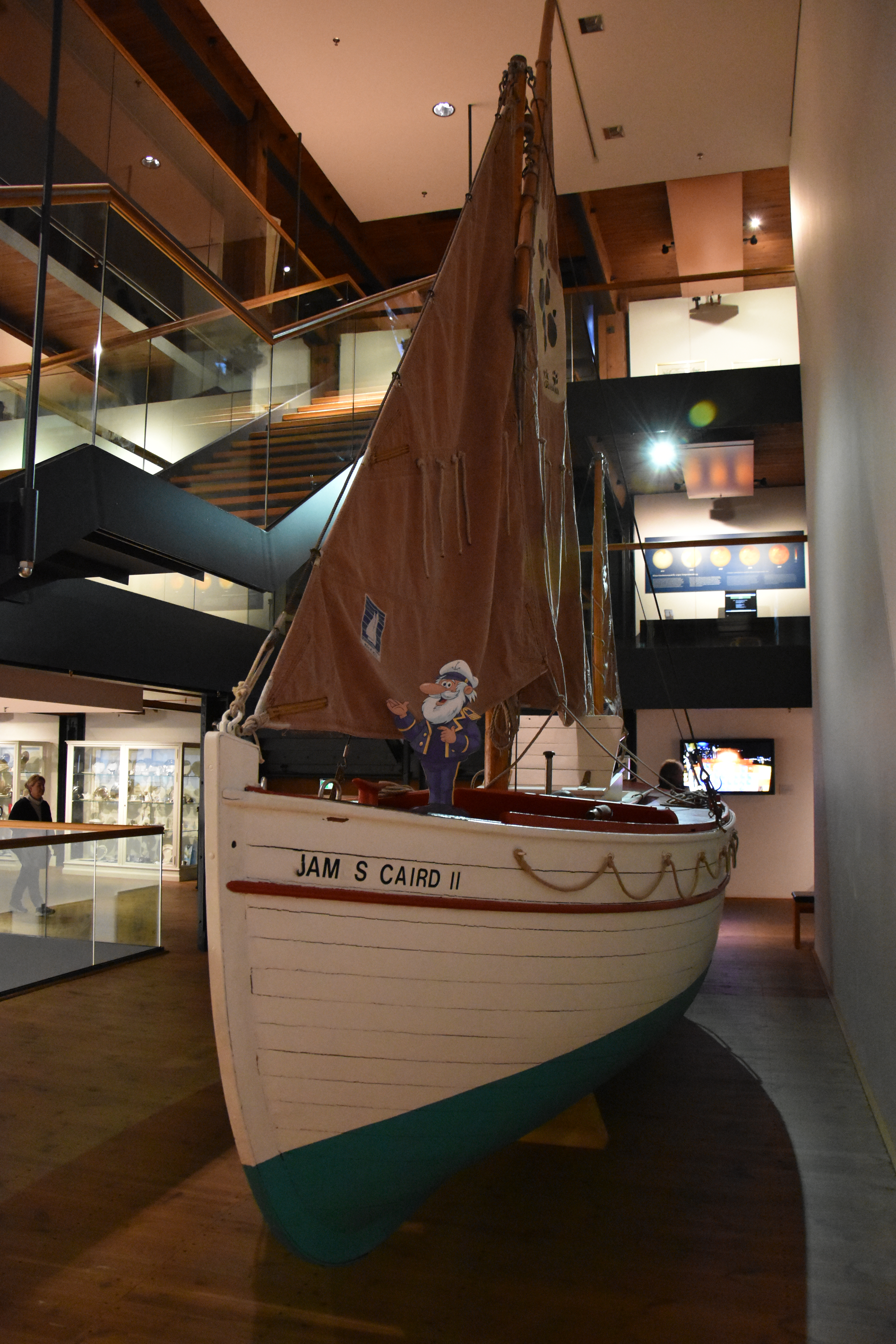 James Caird II, the ship with which Arved Fuchs made his voyage across the arctic sea in succession of Ernest Shackletons voyage in the first James Caird during their Endurance-Expedition.